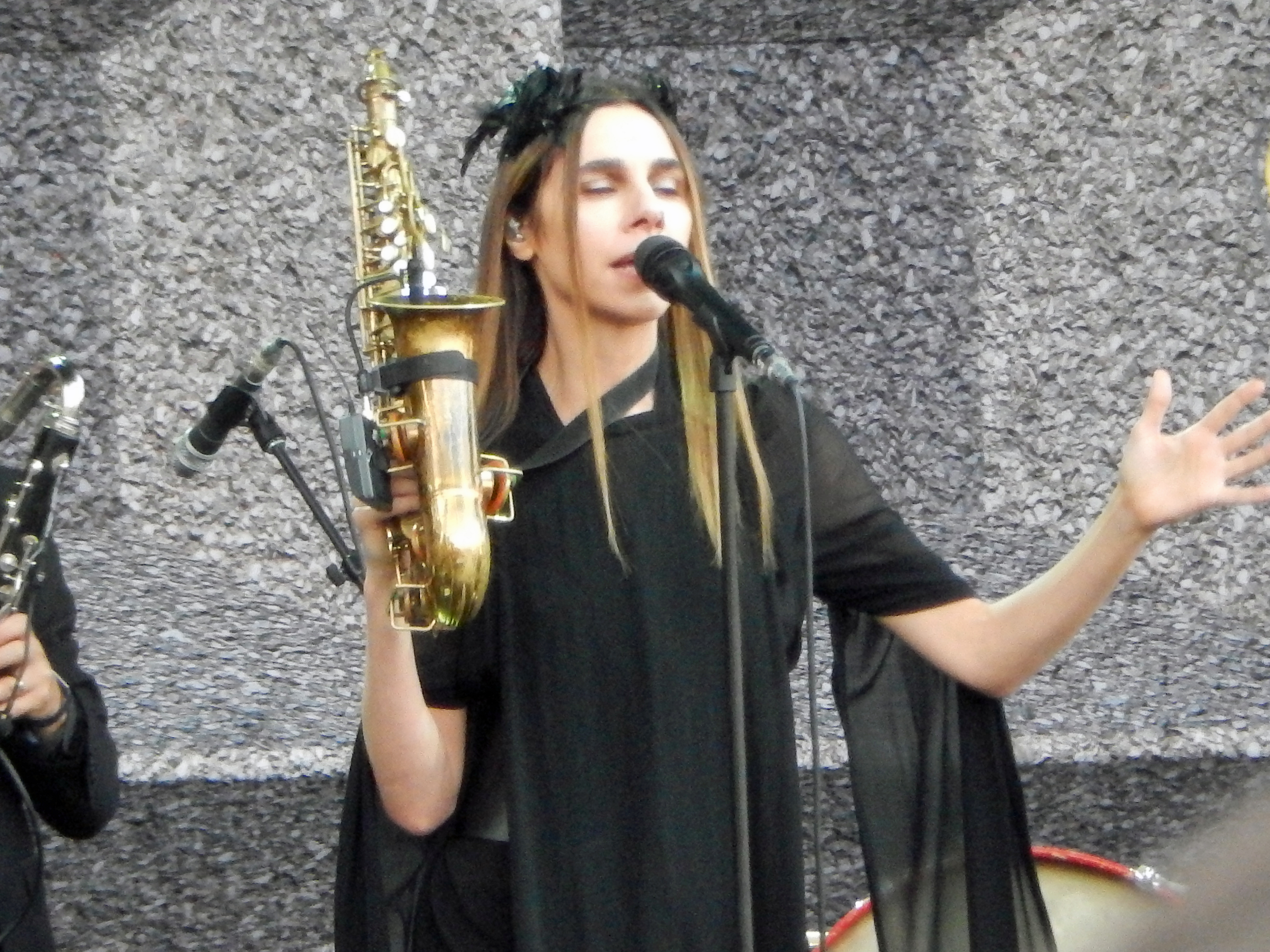 PJ Harvey @ Pitchfork, Chicago 7/15/2017